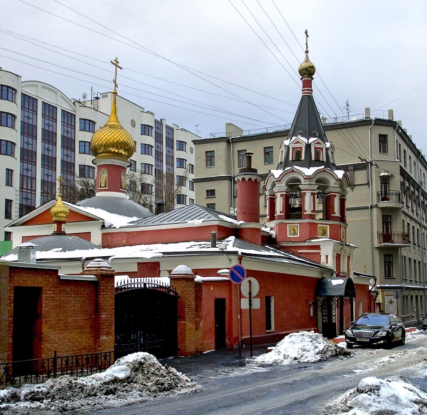 Church of Apostle Philipp (Moscow, Russia)